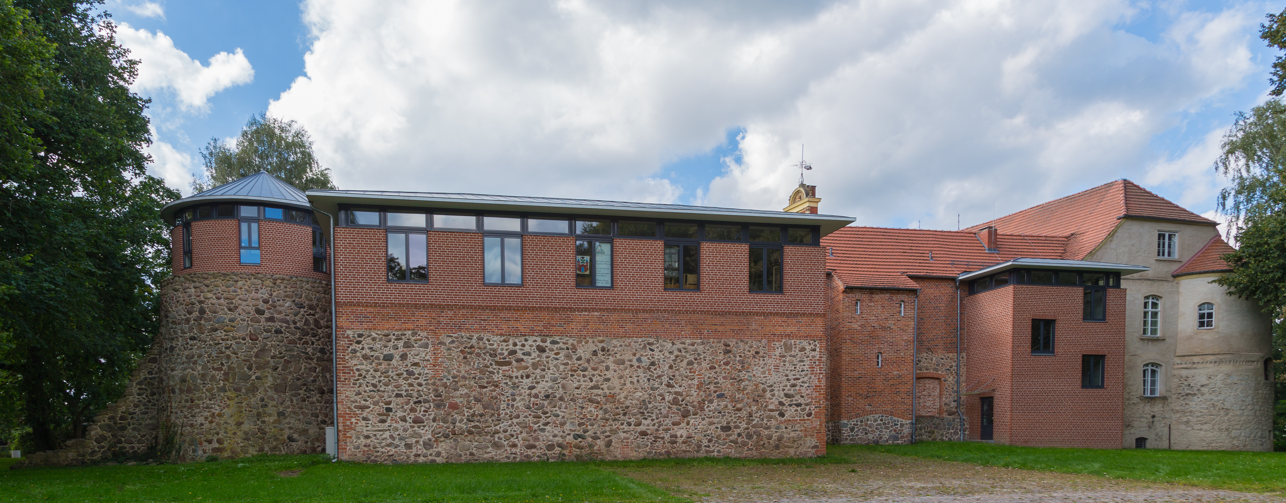 Meyenburg Castle (Schloss Meyenburg) in Meyenburg, Landkreis Prignitz, Brandenburg, Germany.